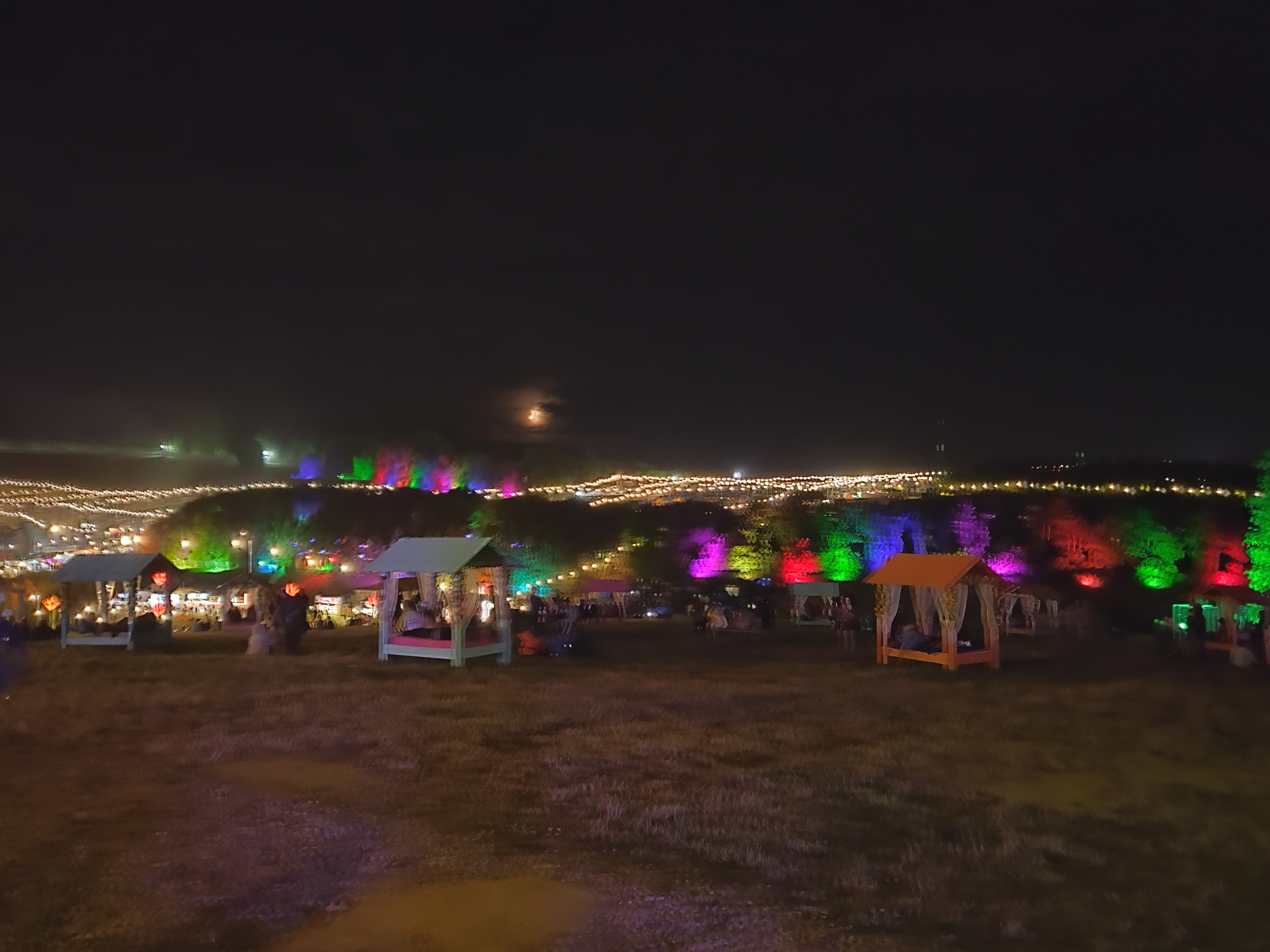 Night-time view of Hippie Highway at Boomtown Fair 2019